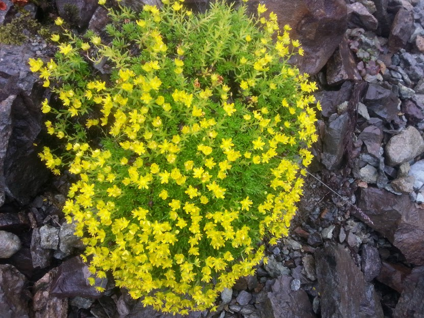 gullsteinbrjótur